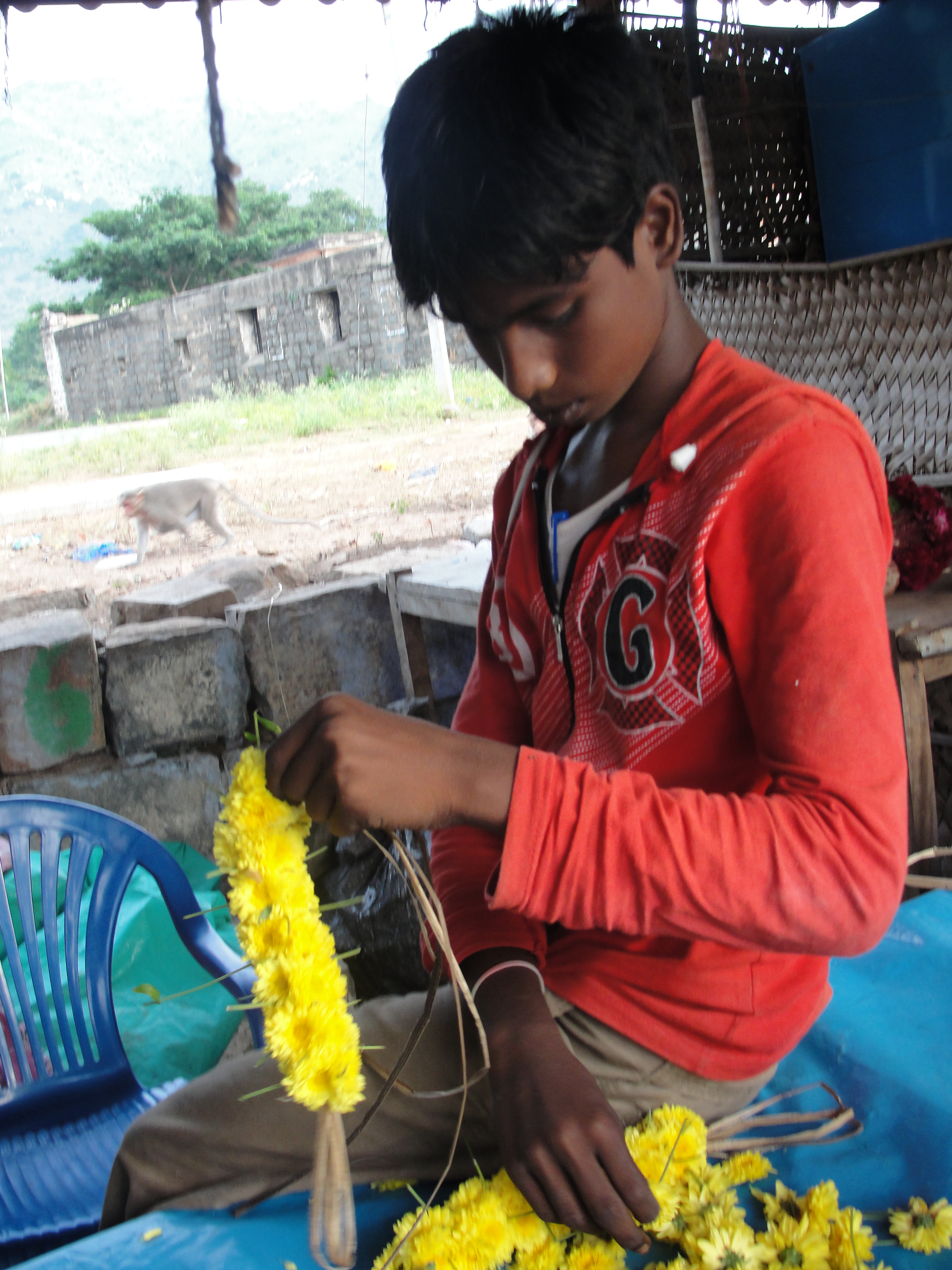 A boy making garland in Siththar Temple, Salem, Tamil Nadu, India.